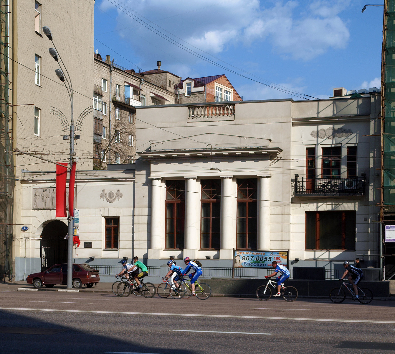 Bolshaya Sadovaya Street, Moscow. Fyodor Schechtel's own house.